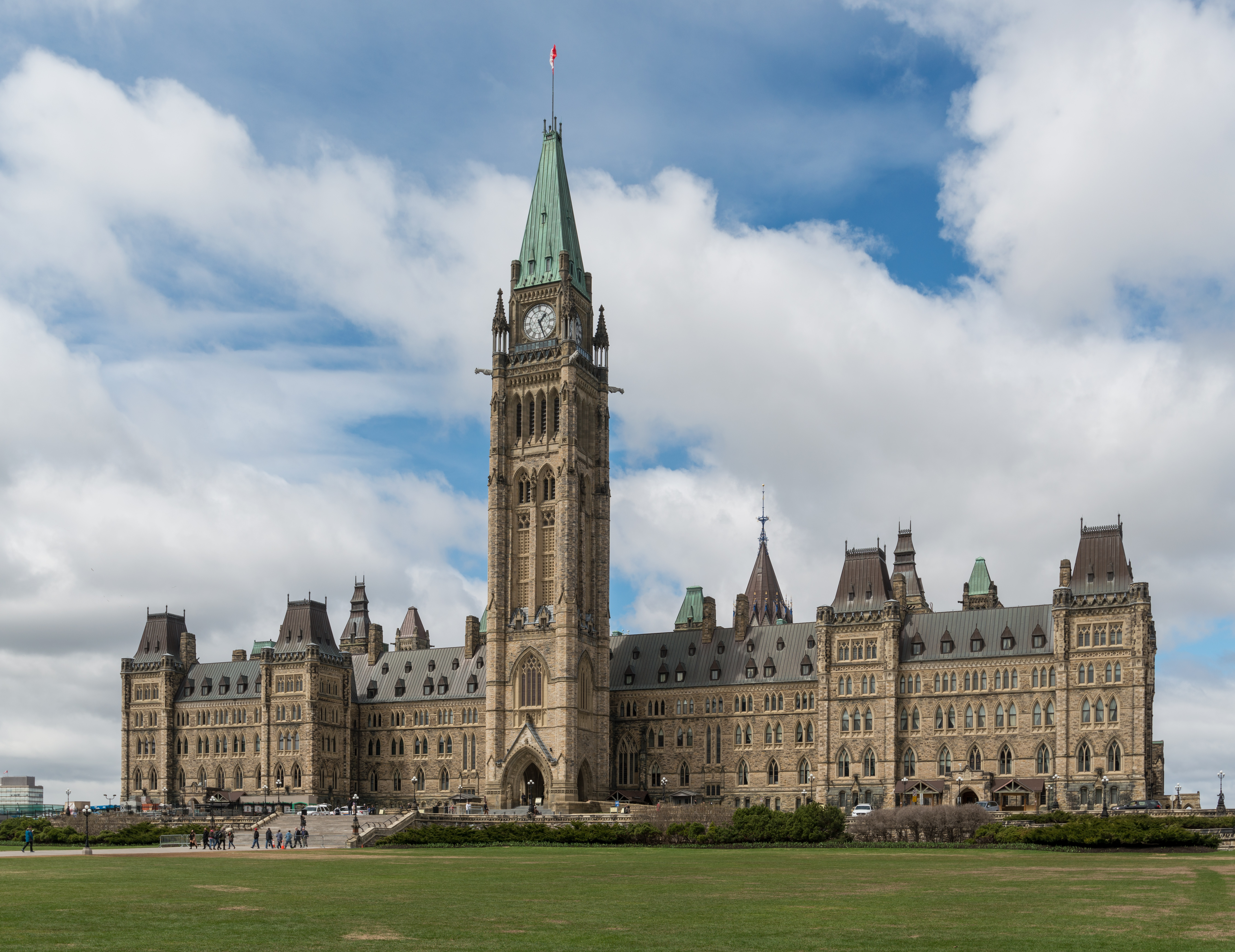 A southeast view of Centre Block, the main building of the Parliament of Canada, Ottawa, Ontario